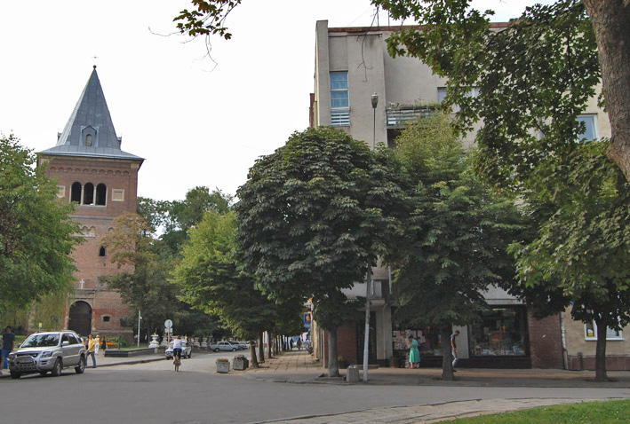 Drohobych, Market Square and church